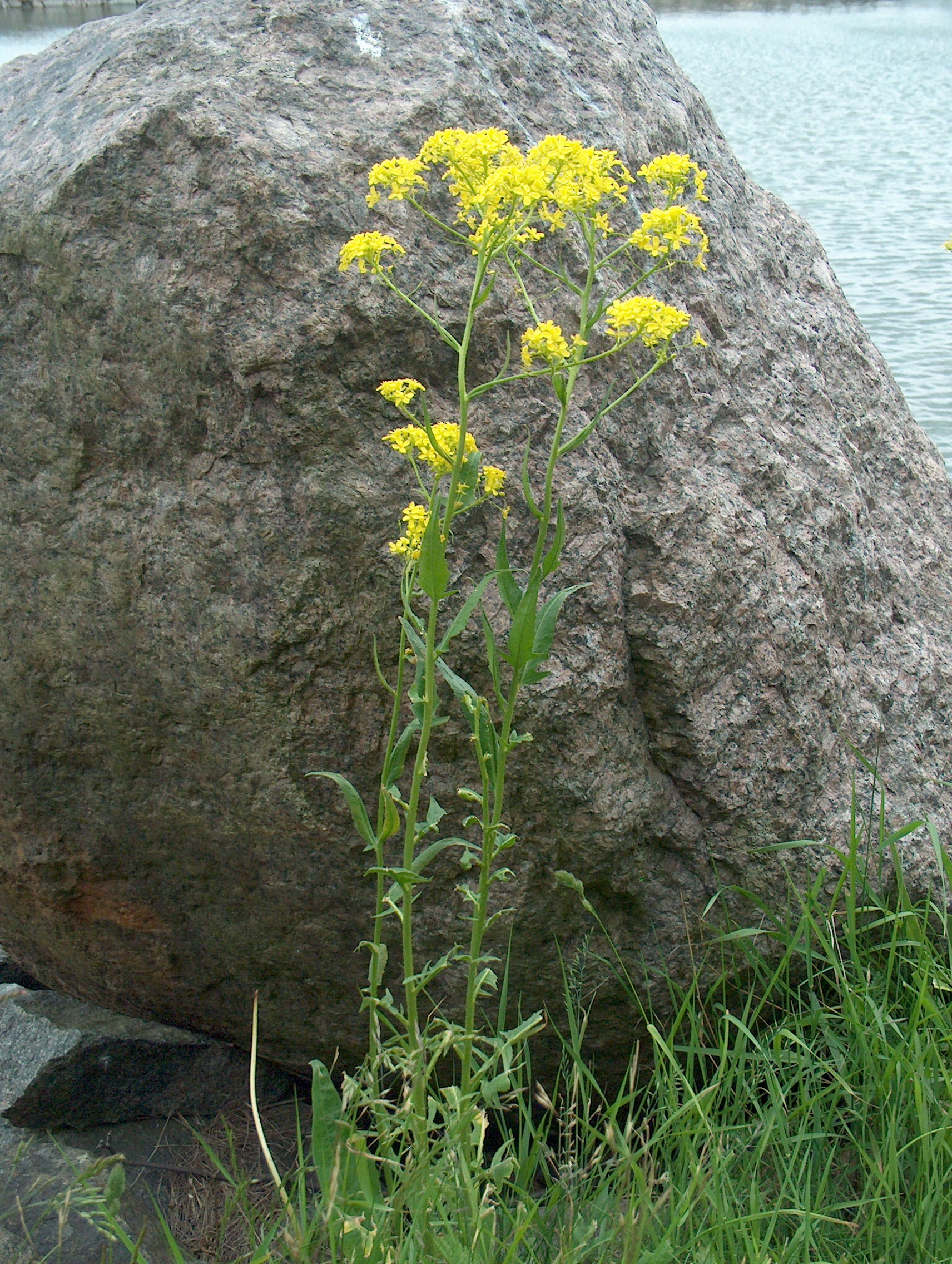 Bunias orientalis, Warty Cabbage - Suomenlinna fortress, Helsinki, Finland